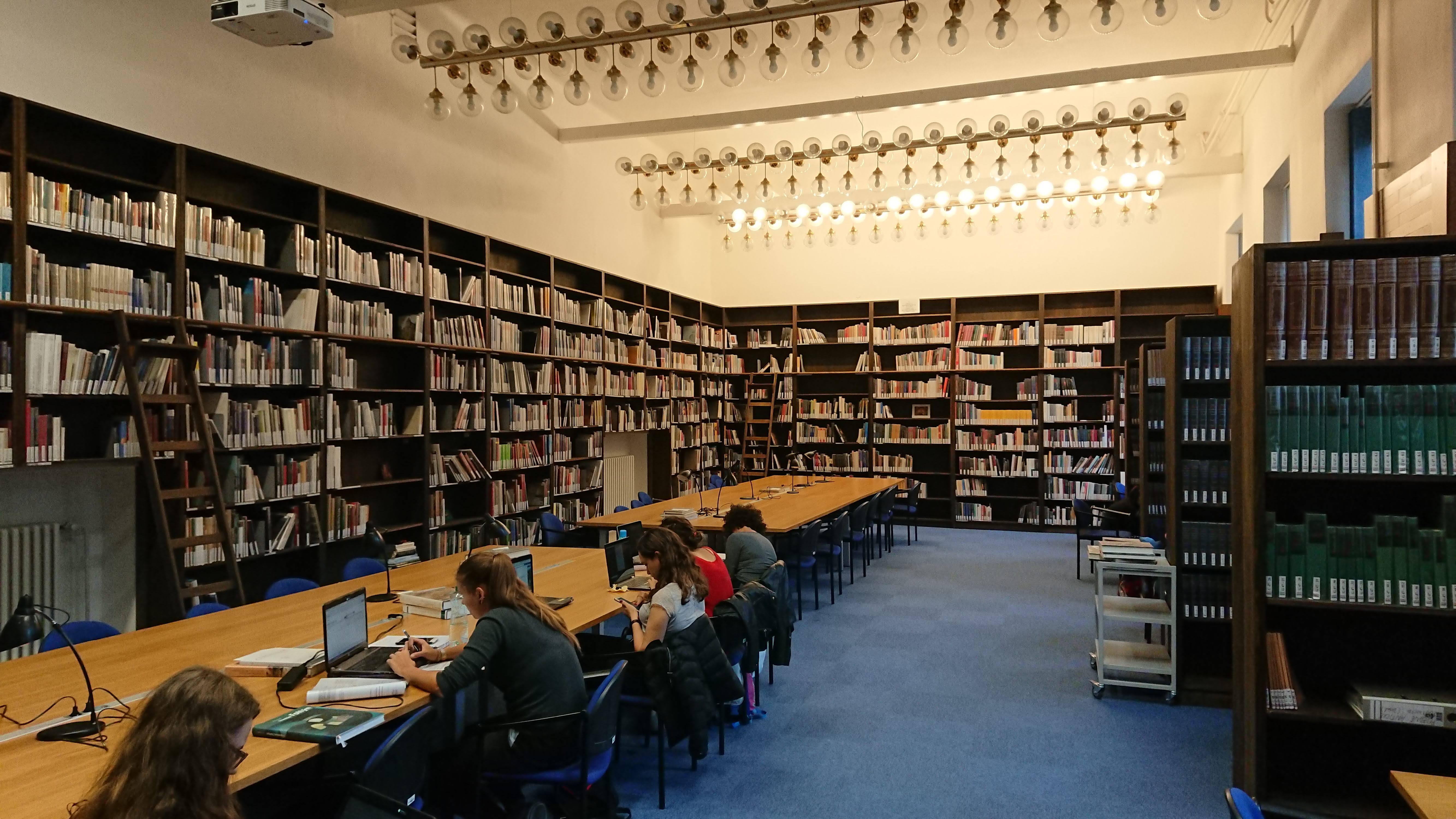 Hans Belting Library, Department of the history of art, Faculty of Arts of Masaryk university in Brno, Czech republic.